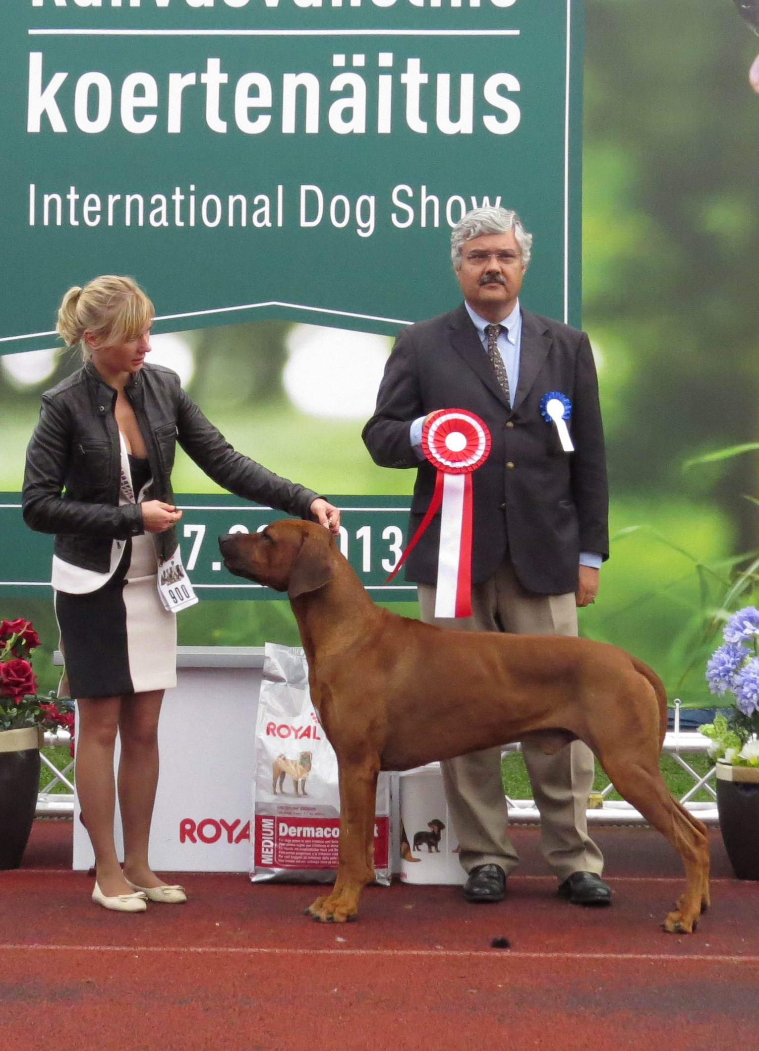 Rhodesian Ridgeback in Tallinn, duo CACIB, 17-18 Aug 2013